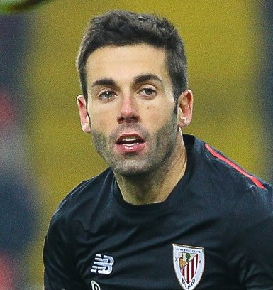 Markel Susaeta